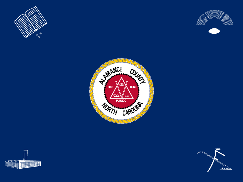 The flag of Alamance County, North Carolina, was designed in 1973 by a County Employee on request from a local resident who got the idea from her teenaged son, who saw a new flagpole going up at a local miniature golf course. The design was approved by the county commissioners in May 1974, along with a request for flags to be printed. According to county historical records, it was the first County Flag in North Carolina. According to the minutes of the commissioners meeting, the colors of the flag match the colors of the North Carolina State Flag. The flag has a field of blue having the county seal as the center emblem, and having the following charges in each quarter canton, beginning in the top-left and going clockwise: a book and spectacles representing education, an amphitheater representing drama, a plow with a bird representing agriculture, and a factory building representing industry. Due to printing difficulties (most likely to save on printing costs), this version of the flag has never been printed. The commissioners approved an exception that would allow the flag to be printed in blue and white. The actual printed flag came out differently than was approved by the commissioners. The version that was printed in 1974/75 (in time for the national bicentennial) and reprinted again in the early 1990's (in time for Alamance County's Sesquicentennial in 1994) had 2 major changes from the approved design. First - the flag was a much lighter blue than was approved (it does not match the blue in the North Carolina State Flag). Secondly, the factory in the bottom left canton was printed backwards. This reversal seems to be due to a decision to have the reverse side of the flag printed to mirror the charges on the obverse. The obverse factory was printed on the reverse side and vice-versa.